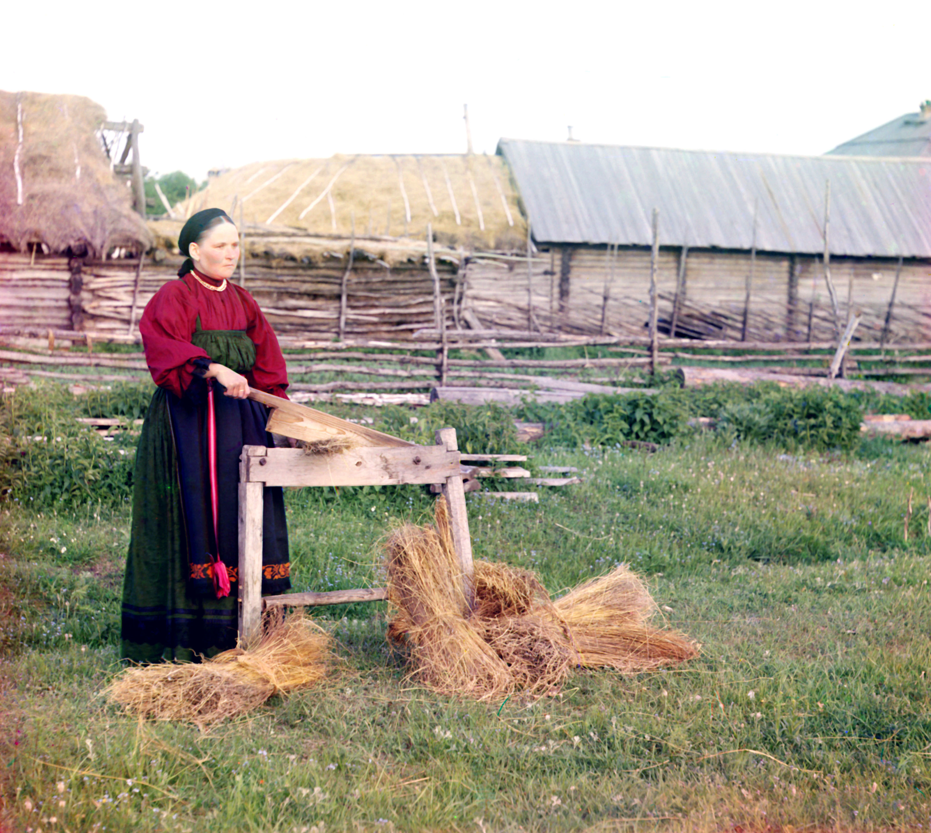 Peasant woman breaking flax; Russia, Perm Province.